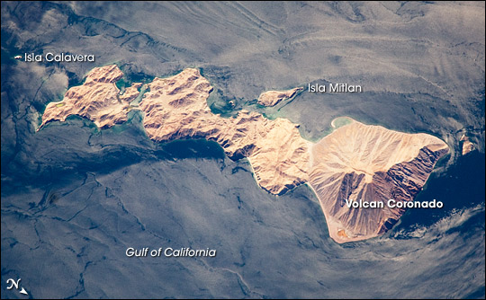 NASA astronaut image of Coronado Island, Gulf of California, Mexico